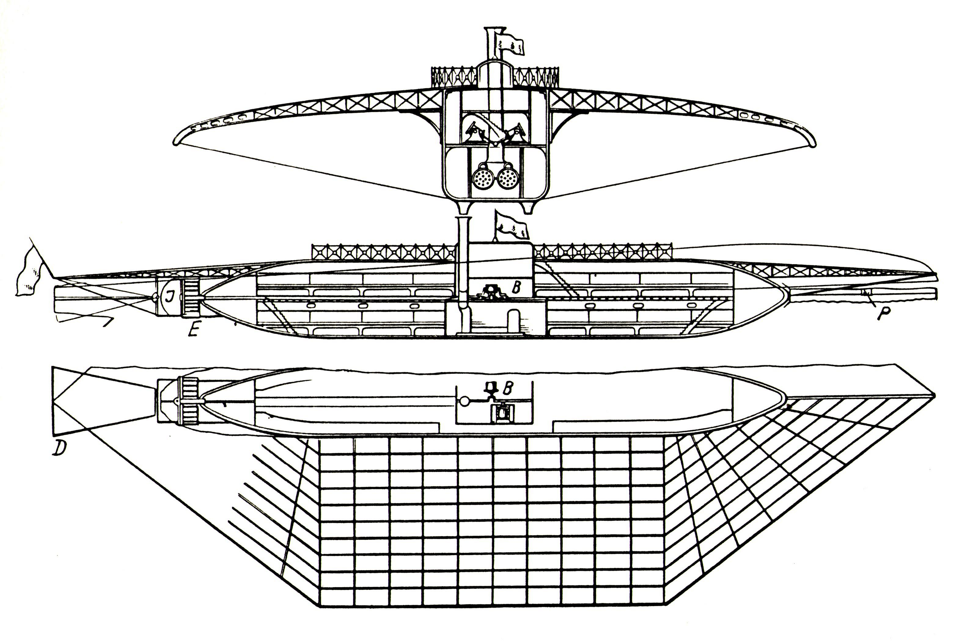 The System of Aeronautics, a project of a multi-seater aircraft propelled by a steam machine, designed by the Russian engineer and businessman Nikolai Afanasievich Teleshov (1828—1895).The outline from the Patent of Great Britain No 2299, 20 September 1864.The aircraft was supposed to have a streamlined cigar-shaped fuselage with two decks for passengers and luggage. The wing of hexagonal form was fastened to the top of the fuselage.The letter designation on the outline: B — the two-cylinder steam machine; D — the elevator; E — the propeller, J — the rudder, P — the movable weighted regulator (for in-flight balancing).The System of Aeronautics was never built.